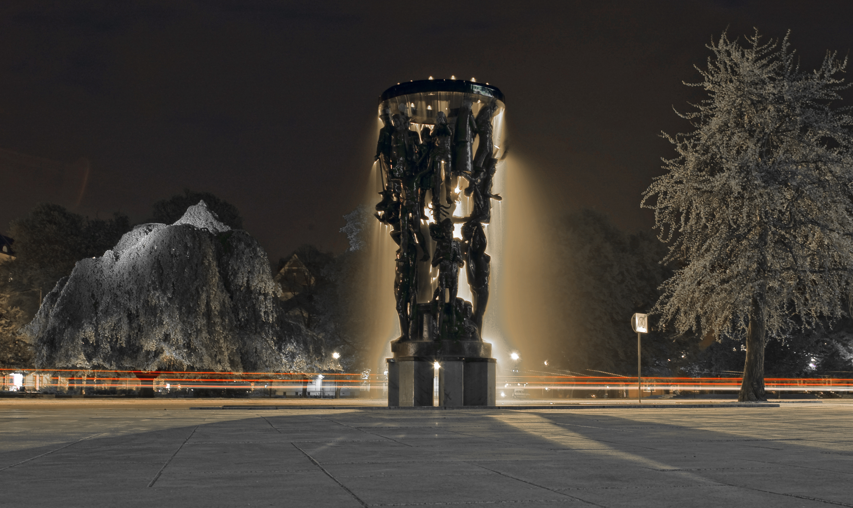 Tragos fountain in front of Malmö opera made by Nils Sjögren